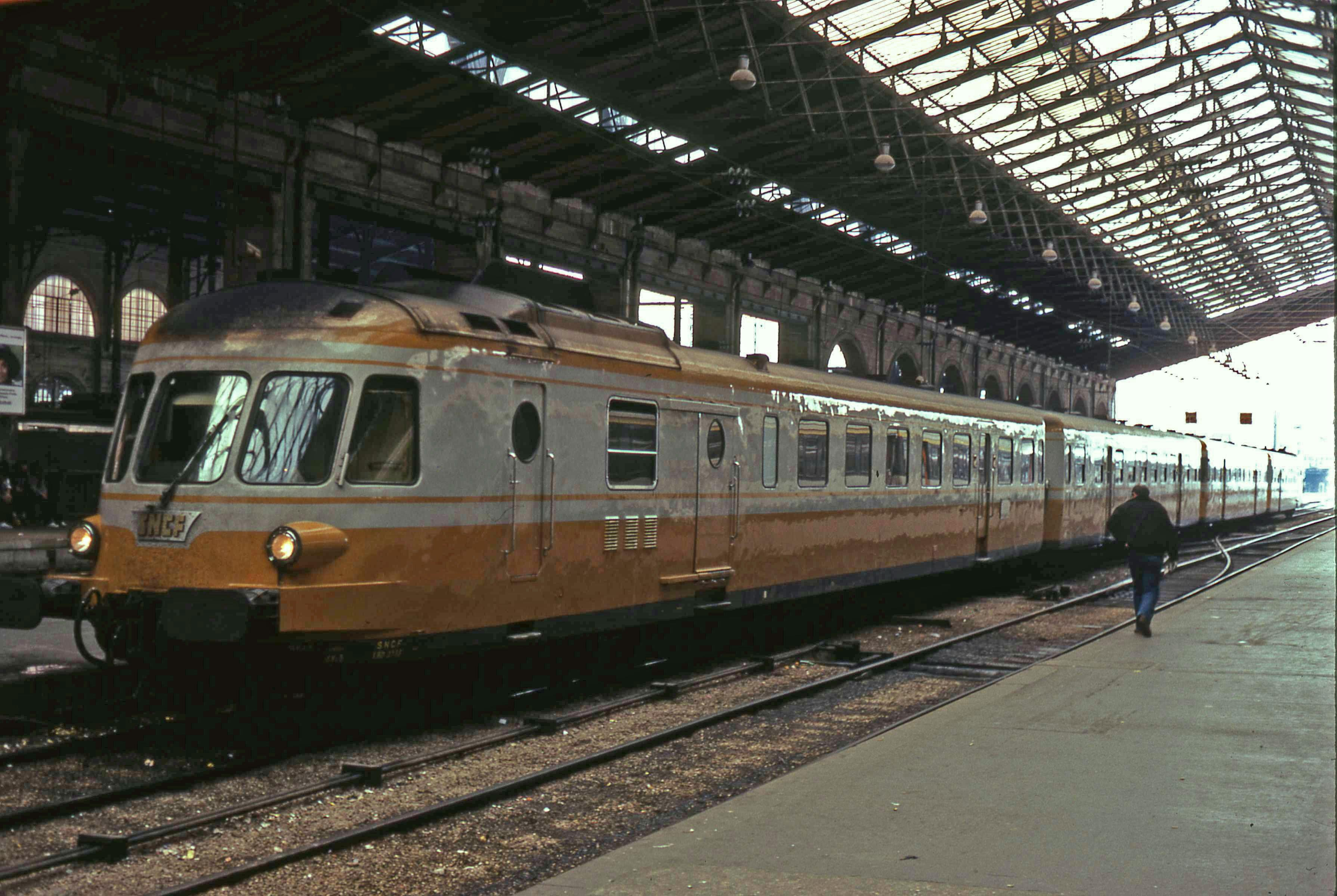 Rame à grand parcours X 2720 in Paris Gare du Nord in 1980.